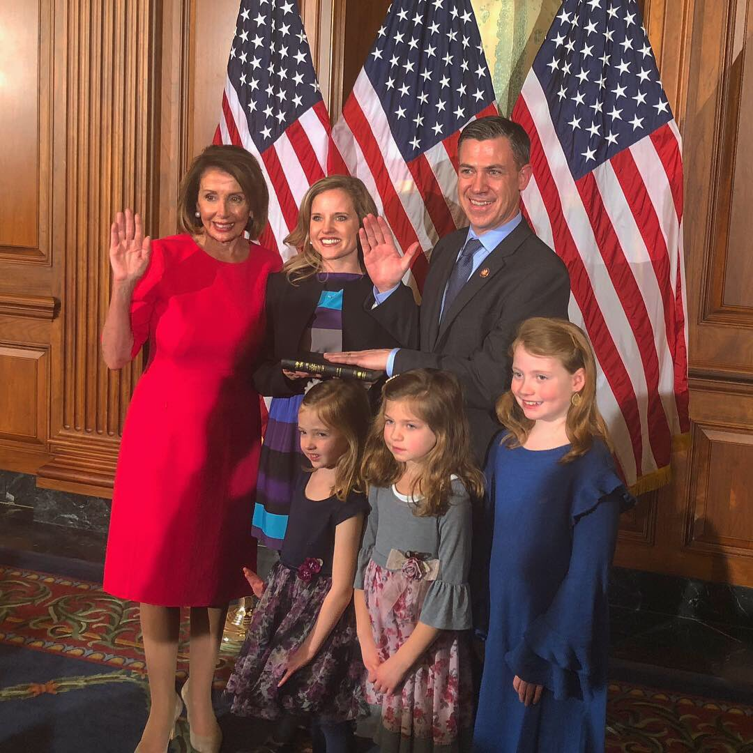 As we wrap up the first day of the 116th Congress, I want to again thank the people of #IN03 for the tremendous honor to serve you. Having my family with me as I was sworn in is a moment I’ll never forget. Representative Jim Banks being sworn in to his second term of Congress by Speaker Nancy Pelosi.